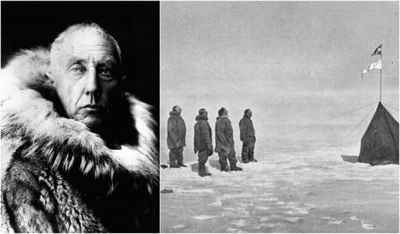 exploration of the south pole